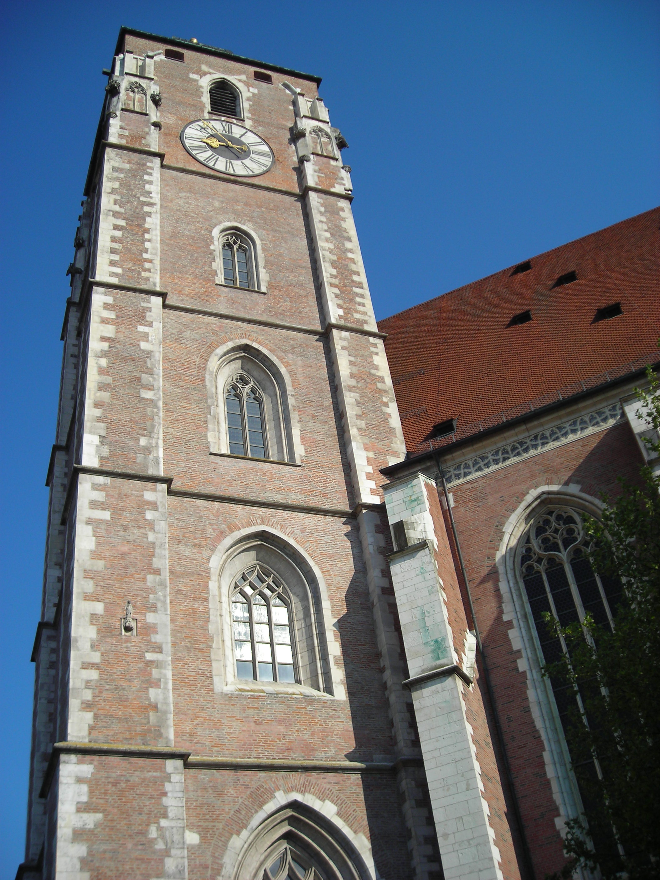 Basilica